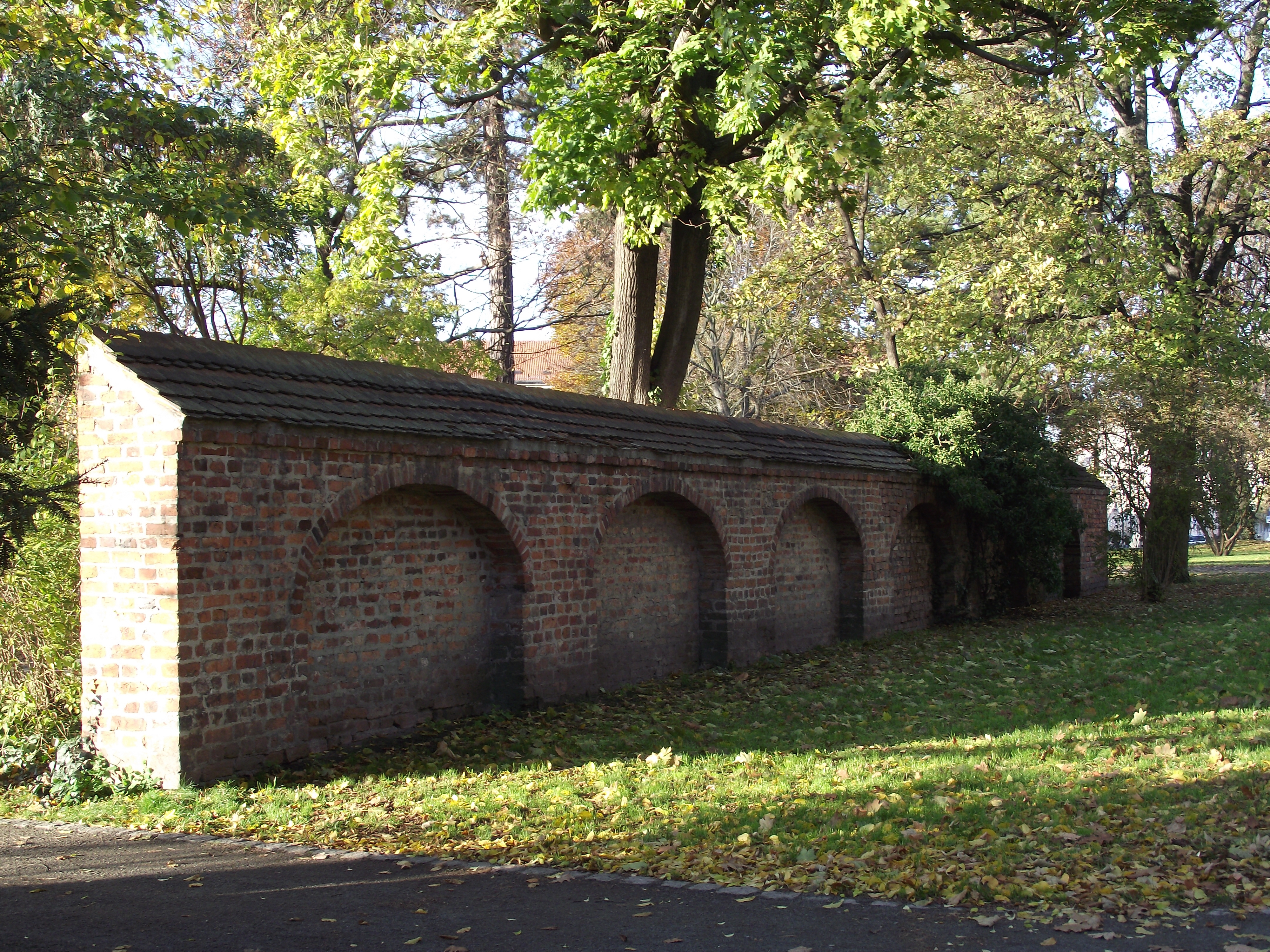 The Akzisemauer was the princly tax wall of Dessau. It was built 1712–1714 by Prince Leopold I (Anhalt-Dessau).